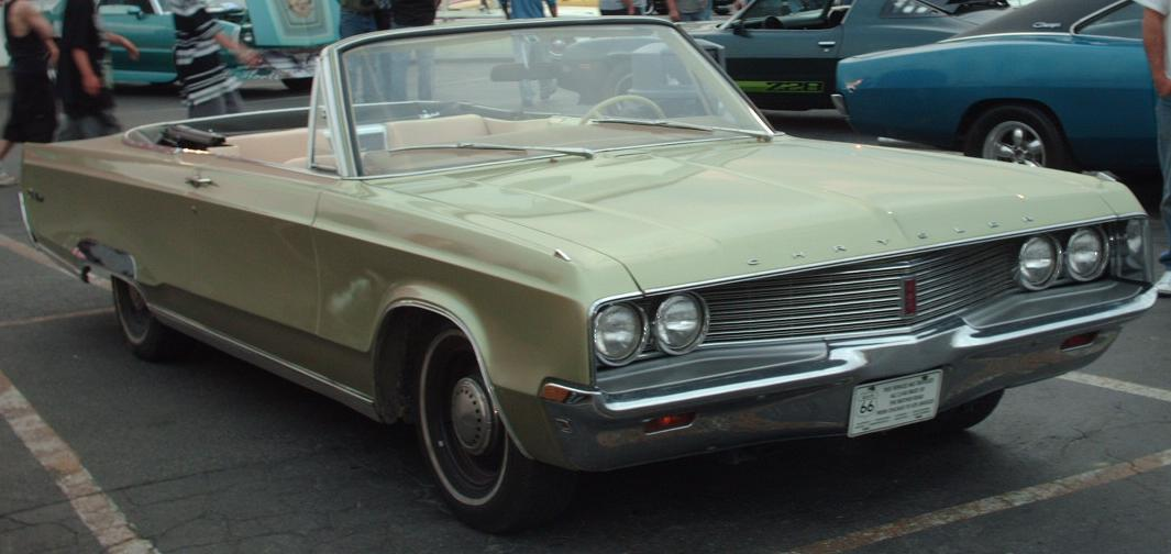 Chrysler Newport convertible photographed in Montreal, Quebec, Canada at Gibeau Orange Julep.